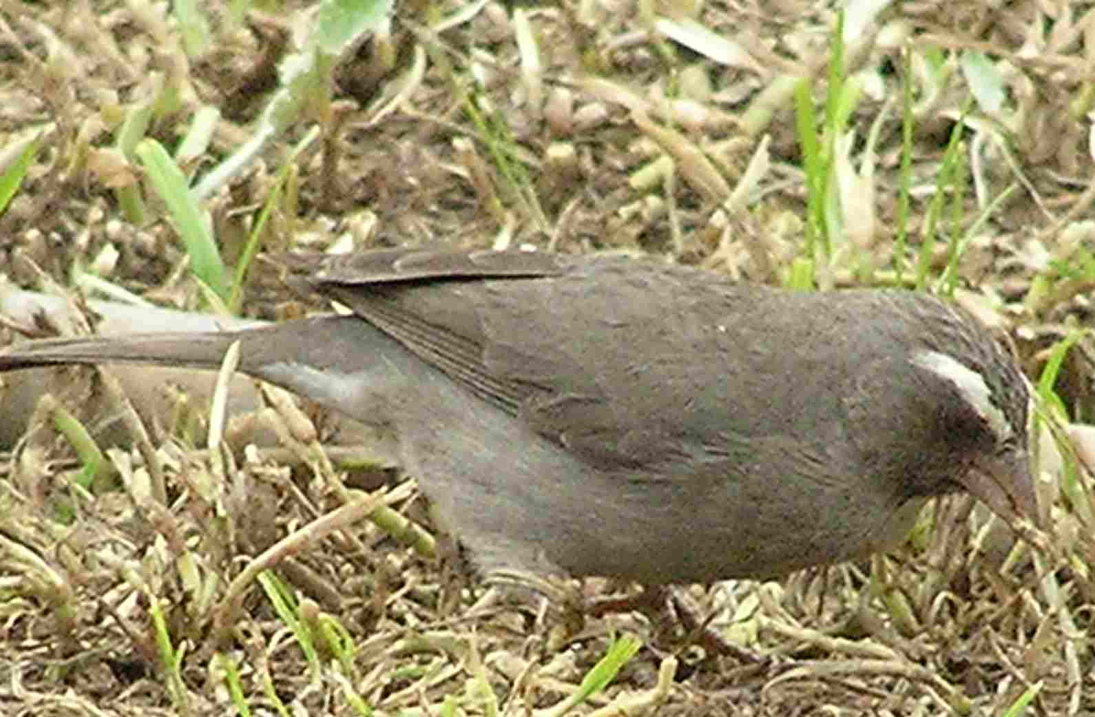 Brown-rumped Seadeater in Debre Berhan, Ethiopia